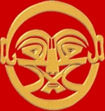 Old calligraphy related to Alevism ?